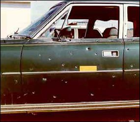 F.B.I. photograph of agents' car after the shootout at Pine Ridge.